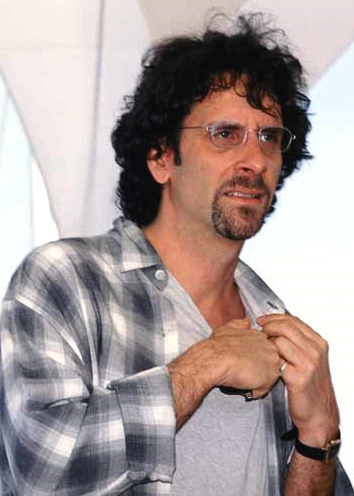 Coen Joel at Cannes in 2001. My own picture. Created by Rita Molnár 2001. ==